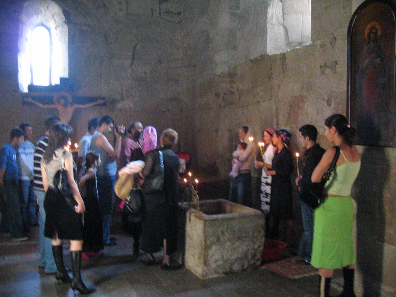 Baptism in a Georgian church